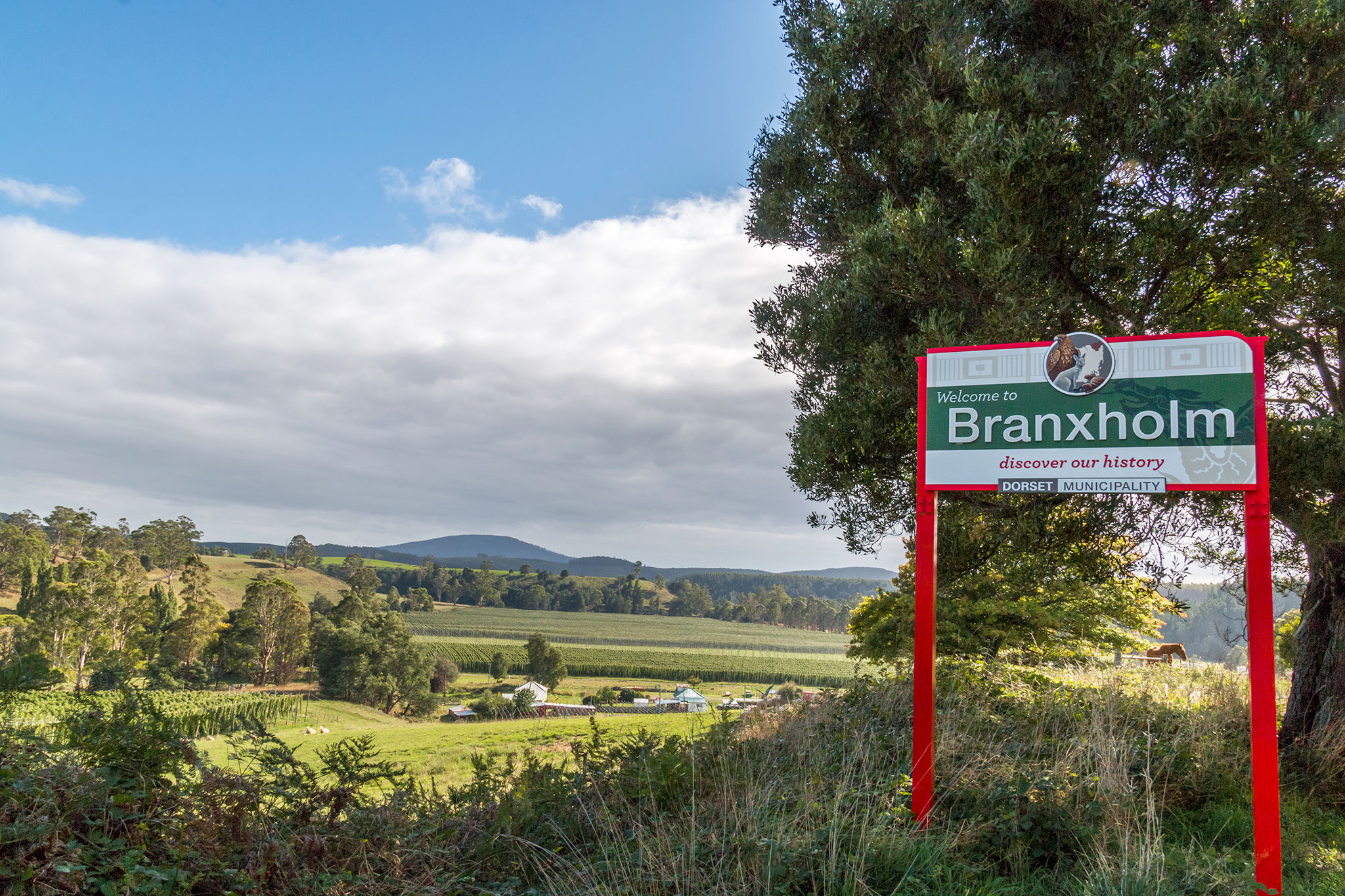 The A3 highway into Branxholm overlooks the hops farm and timber-mill.